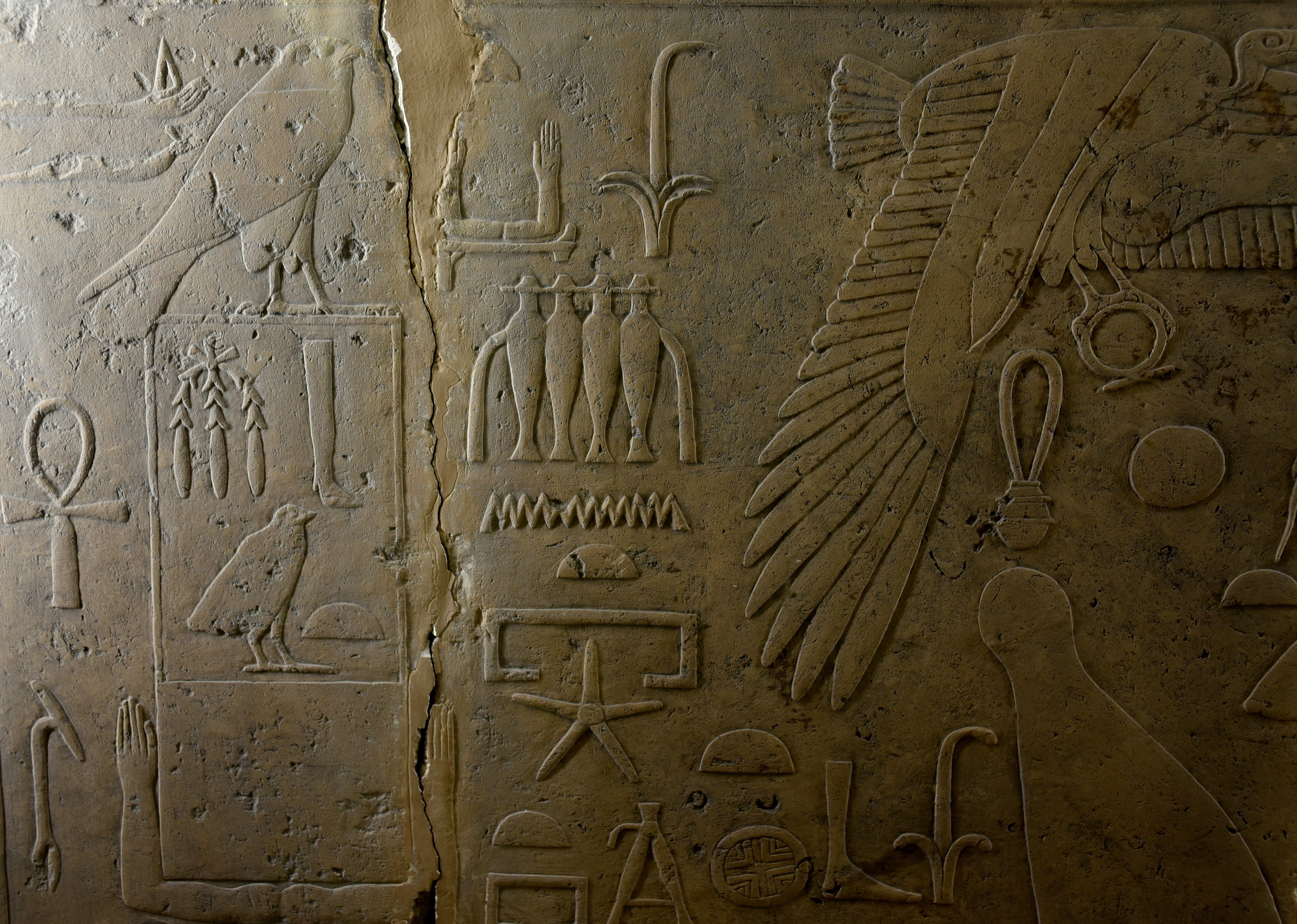 Serekh or Horus name of the Egyptian pharaoh Amenemhat I. 12th Dynasty. Detail of a limestone wall-block from the city of Koptos (Qift), modern-day Egypt. The Petrie Museum of Egyptian Archaeology, London. With thanks to the Petrie Museum of Egyptian Archaeology, UCL.